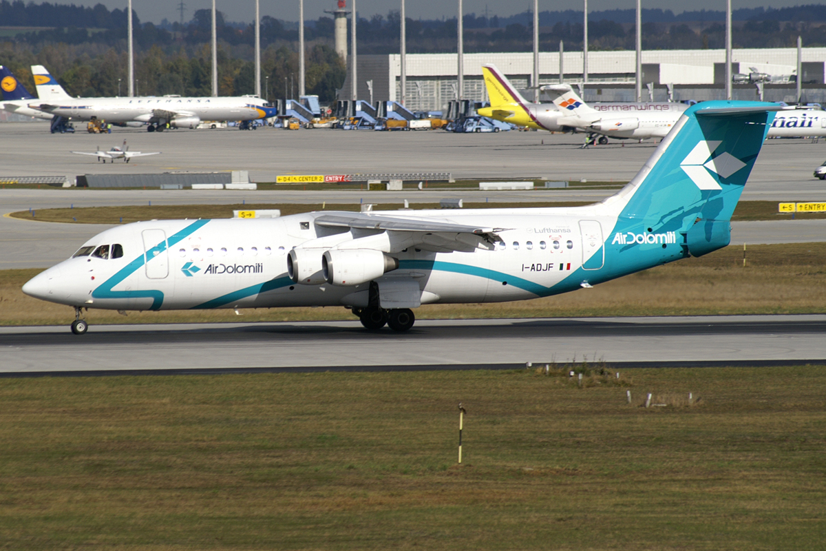 Air Dolomiti BAe 146-300 I-ADJF at Munich Airport